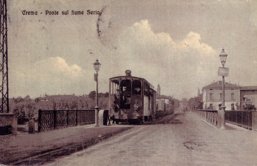 Serio River Bridge in the city of Crema (Italy). The photo dates back to before the year 1931 when the tramway Lodi-Crema-Soncino was abandoned.